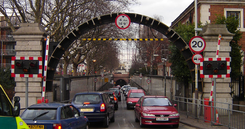 Rotherhithe Tunnel entrance, Rotherhithe, Southwark, London. 11 February 2006. Photographer: Fin Fahey.